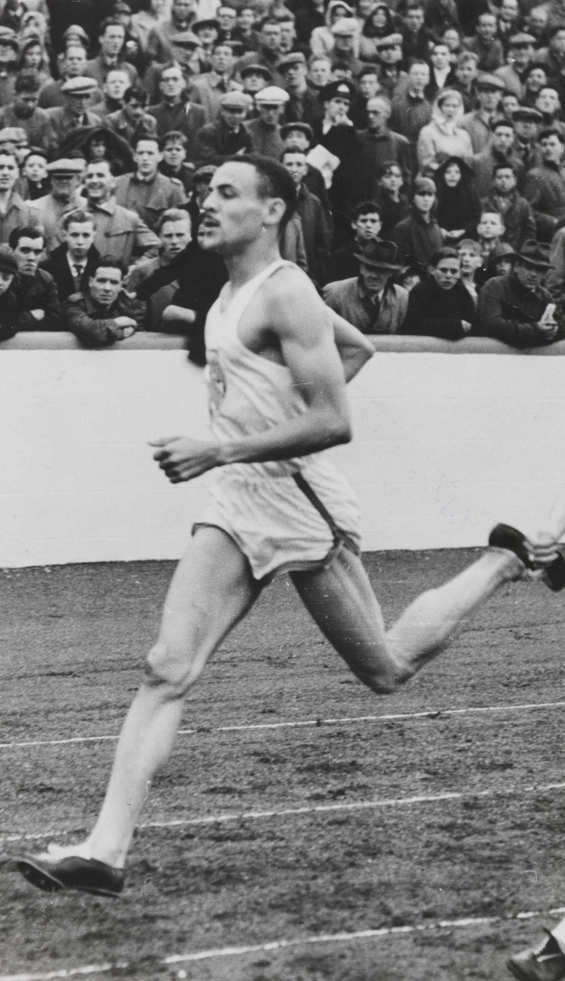 Mal Whitfield (b. 1924) won Gold in the 800m event and in the 4x400m relay at the 1948 Olympics. "Marvelous" Mal served in the United States Air Force during the Korean War. He was the first black athlete to win the James E. Sullivan Award in 1954 for outstanding amateur athletics. Whitfield trained numerous athletes over the years and arranged sports scholarships for over 5,000 African athletes to study in the US. Daily Herald Archive at the National Media Museum We're happy for you to share this digital image within the spirit of The Commons. Certain restrictions on high quality reproductions of the original physical version of apply though; if you're unsure please visit the National Media Museum website. For obtaining reproductions of selected images please go to the Science and Society Picture Library.